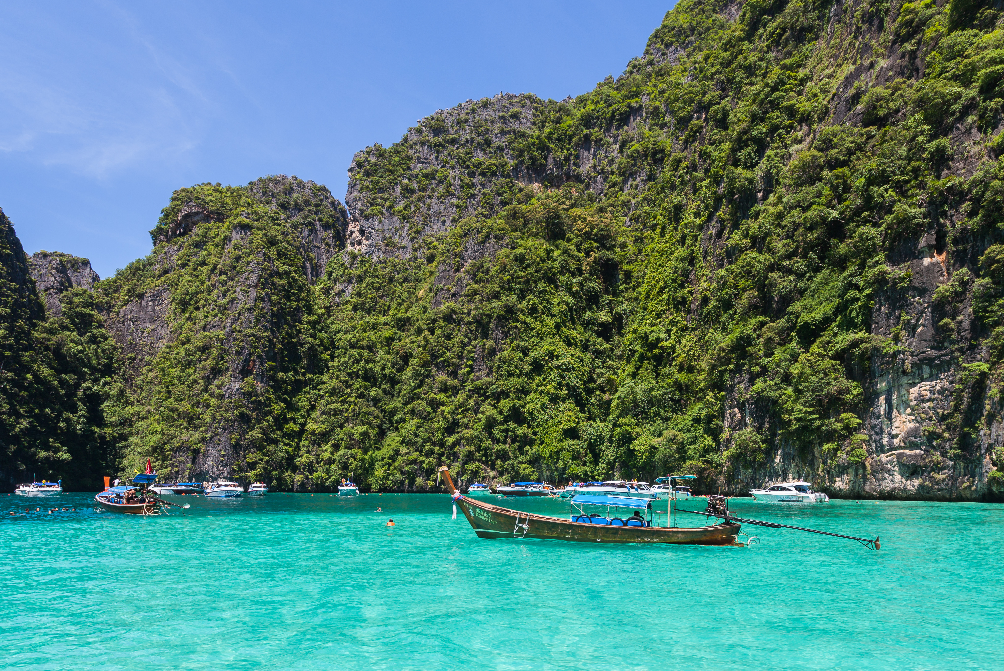 Phi Phi Lay Island, Thailand